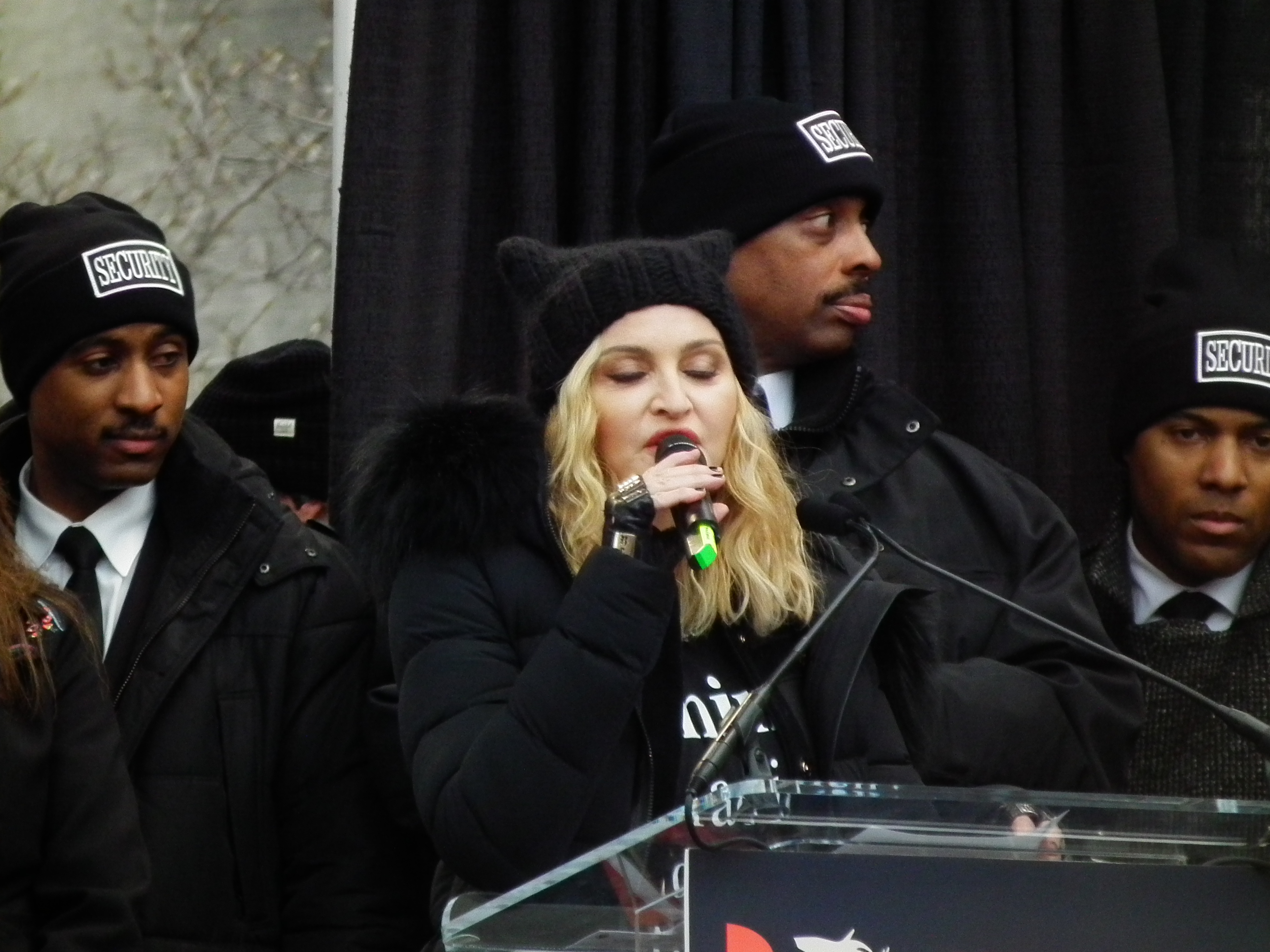 Women's March - Washington DC 2017